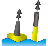 North cardinal mark in IALA system.